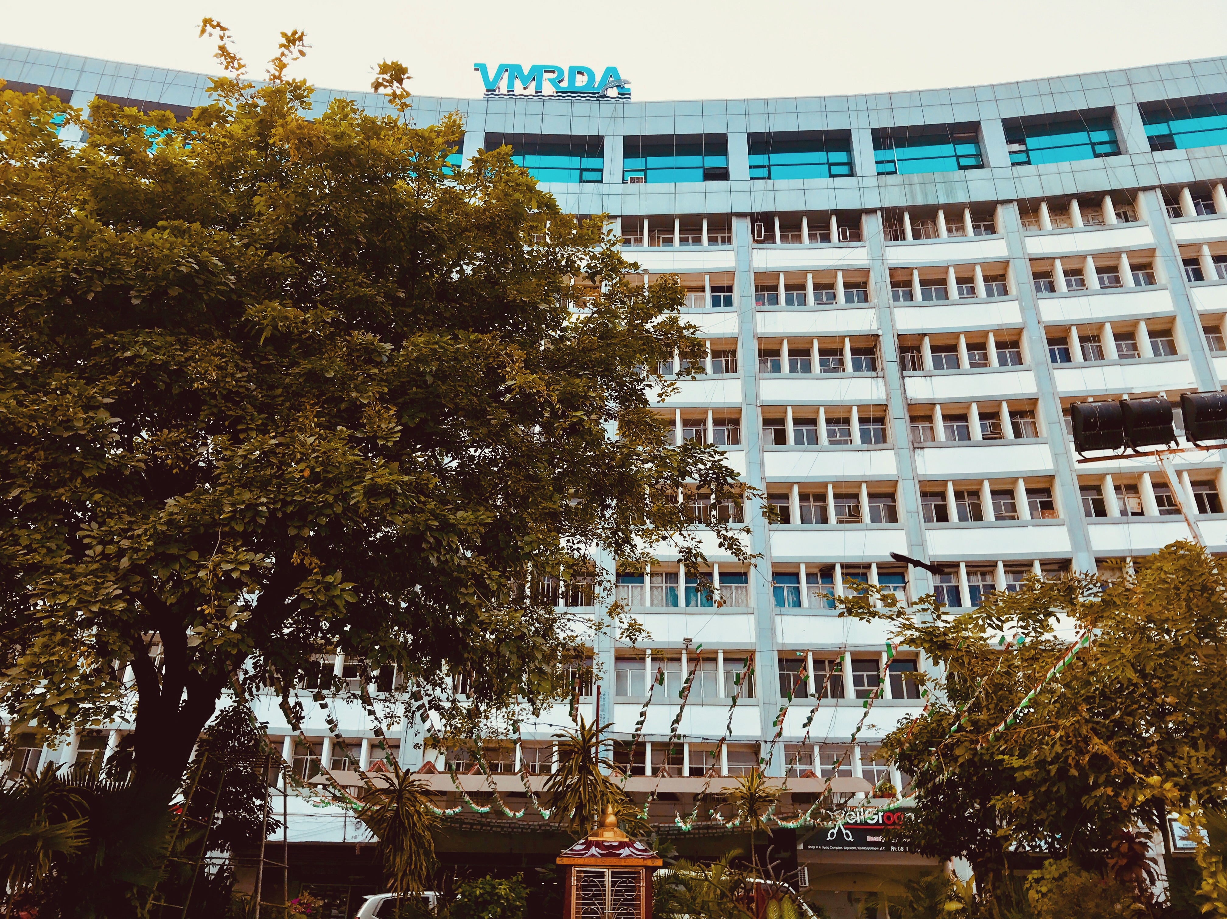 VMRDA office building in Siripuram, Visakhapatnam